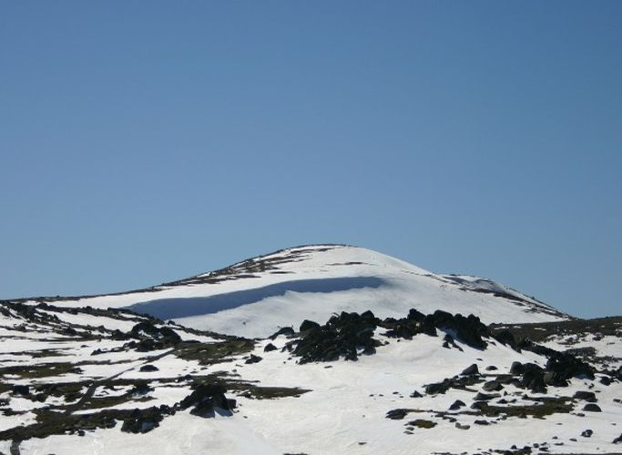 Mount Kosciuszko from the east